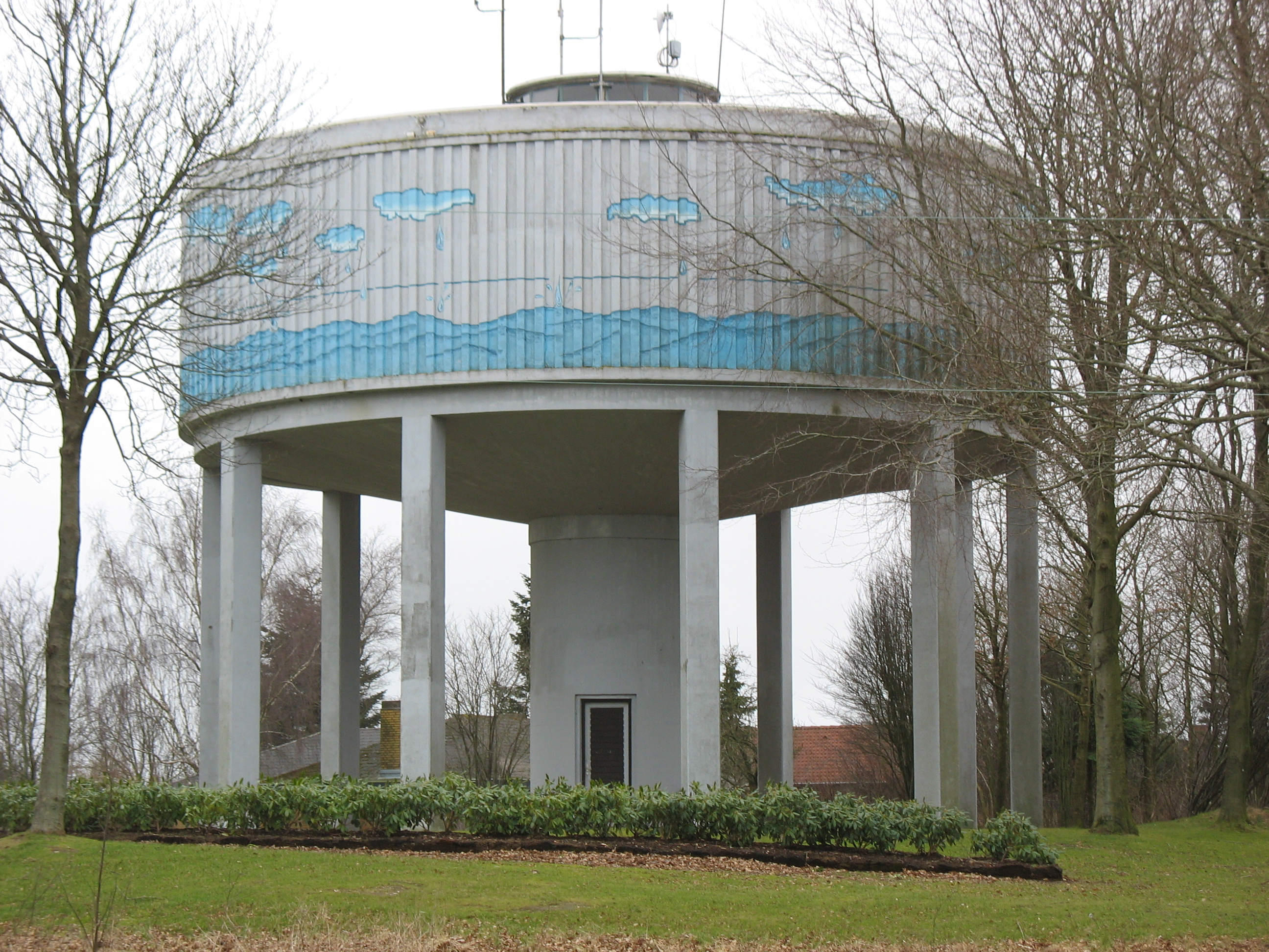 The water tower of the town "Brønderslev". The town is located in North Jutland, Denmark.